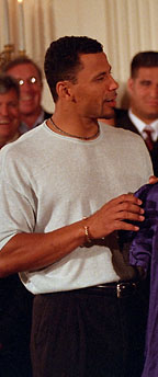 Cornerback Rod Woodson presenting President George W. Bush with a jersey during the president's meeting with the NFL Champion Baltimore Ravens on Thursday, June 8 at the White House.